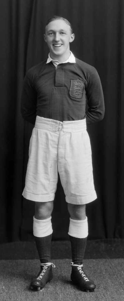 J C Morley, member of the British Lions rugby union team